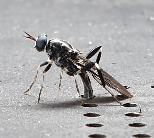 Black soldier fly depositing eggs in a wormfarm